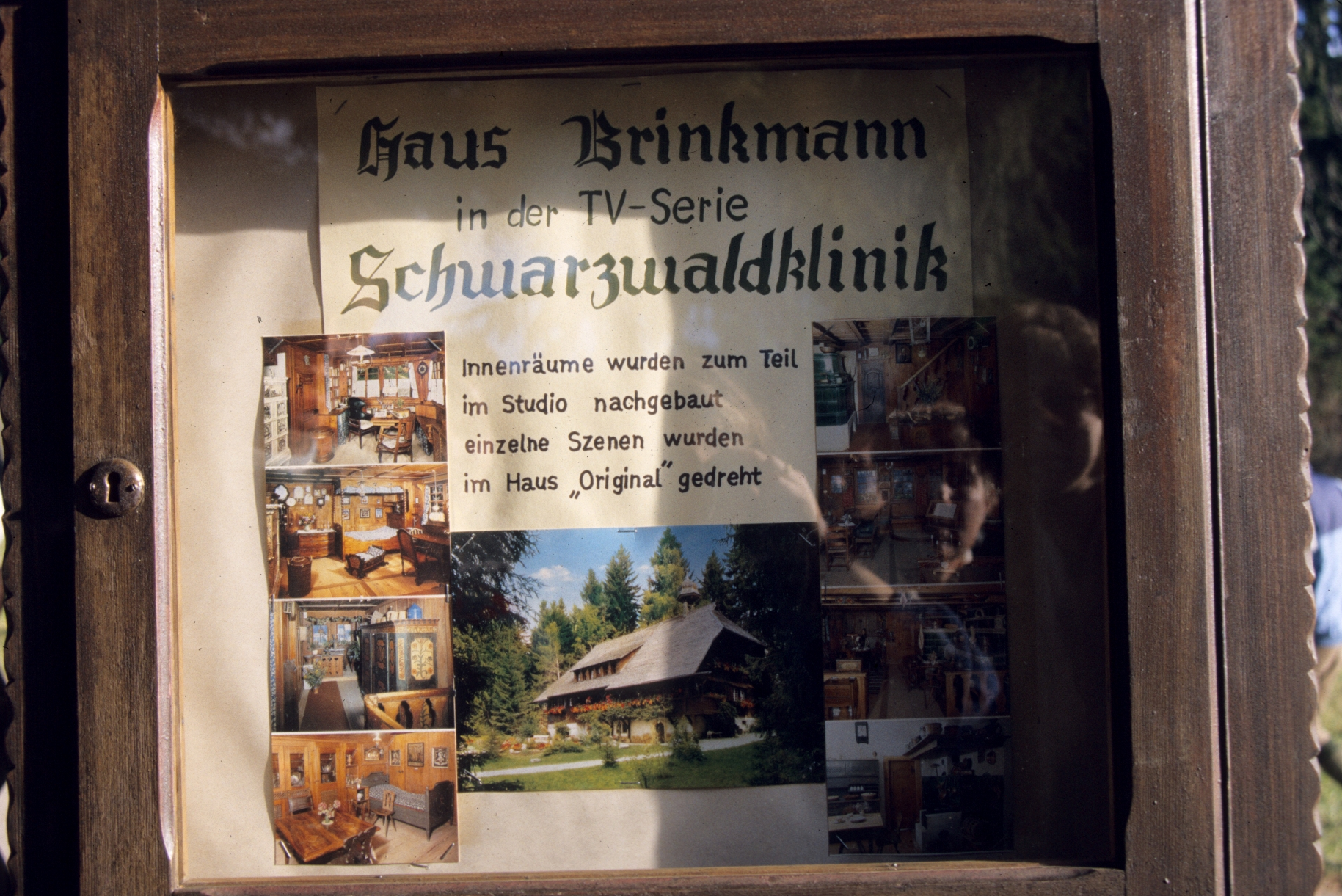 TV-Soap Schwarzwaldklinik